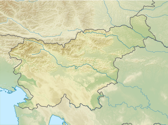 Relief map of Slovenia Equirectangular projection, N/S stretching 140 %. Geographic limits of the map: N: 47.1° N S: 45.2° N W: 13.2° E E: 16.8° E